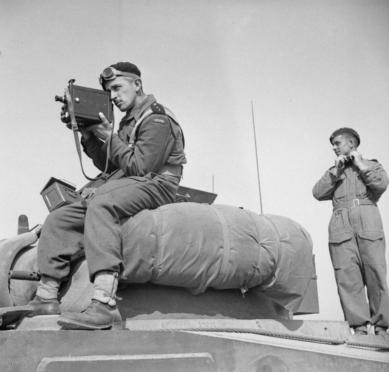 The Polish Army in the Normandy Campaign, 1944 Cameramen in uniform: 2nd Lieutenant Jerzy Januszajtis, a Polish Army Film Unit cameraman, films from the top of a Sherman tank of the 1st Polish Armoured Division tank during Operation 'Totalise', south of Caen, Normandy on 8 August 1944. He is using a De Vry camera fitted with a sling.